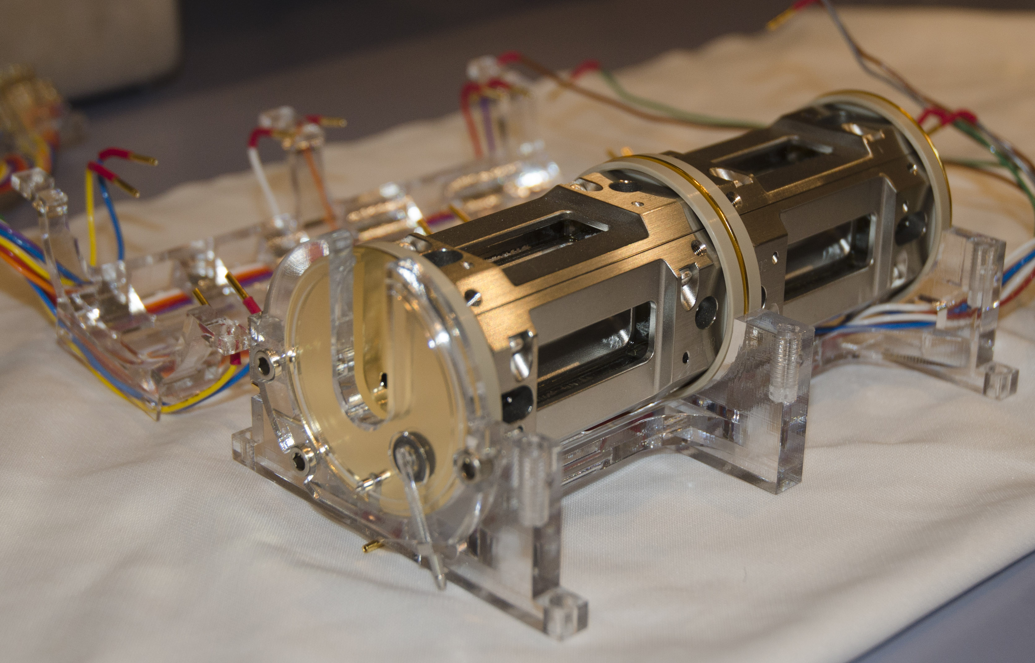 Dual linear ion trap of Orbitrab Velos hybrid mass spectrometer. Partially disassembled. The owner: Institute of Biochemistry and Biophysics, Polish Academy of Sciences.